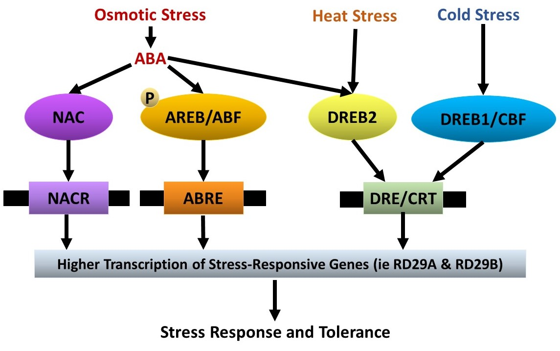 A general pathway of TF regulation in relation to abiotic stress